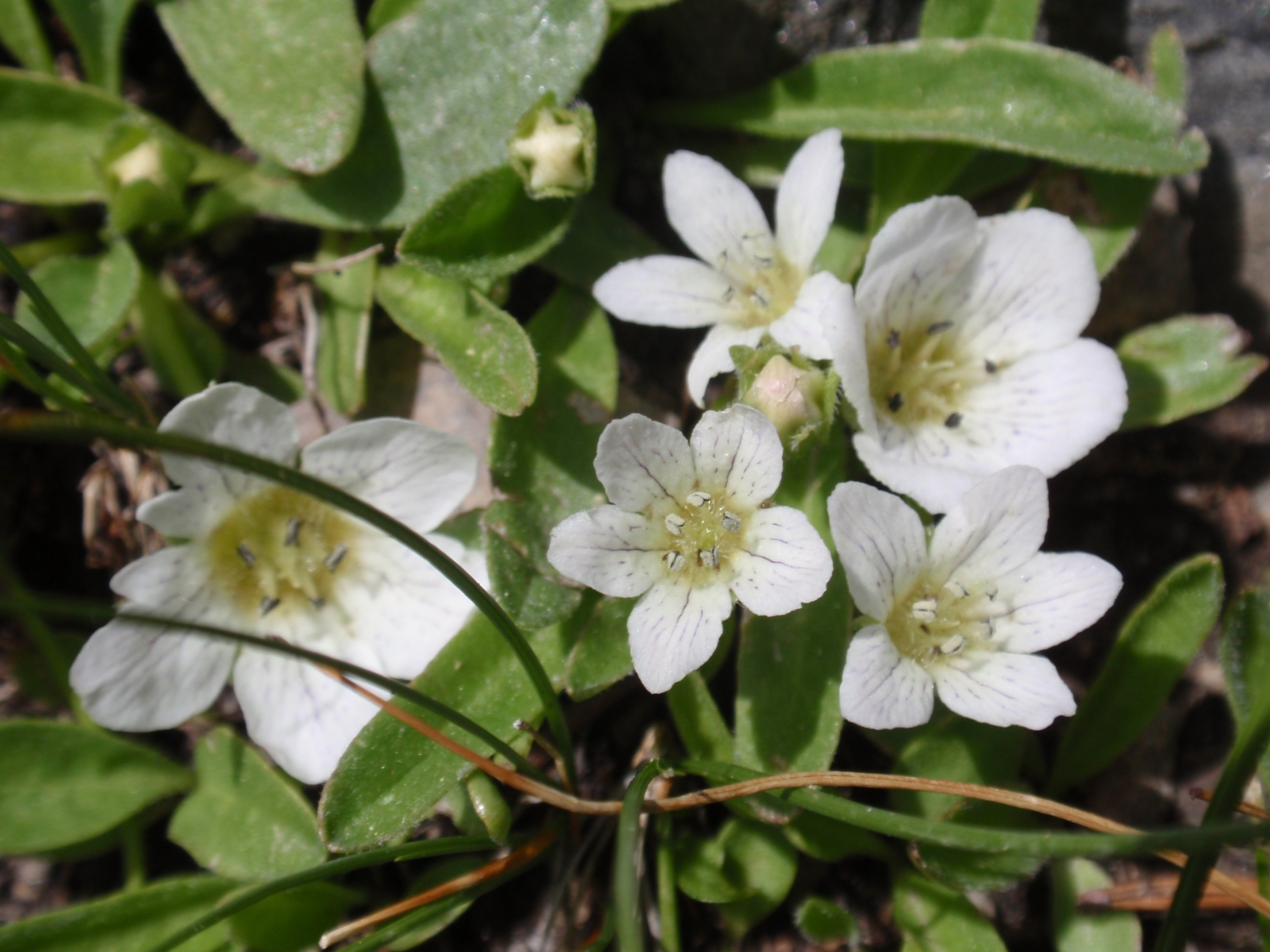 Nemophila spatulata (Sierra baby blue-eyes). Photo taken near Forage Meadow, Ansel Adams Wilderness, Sierra Nevada, California, USA.